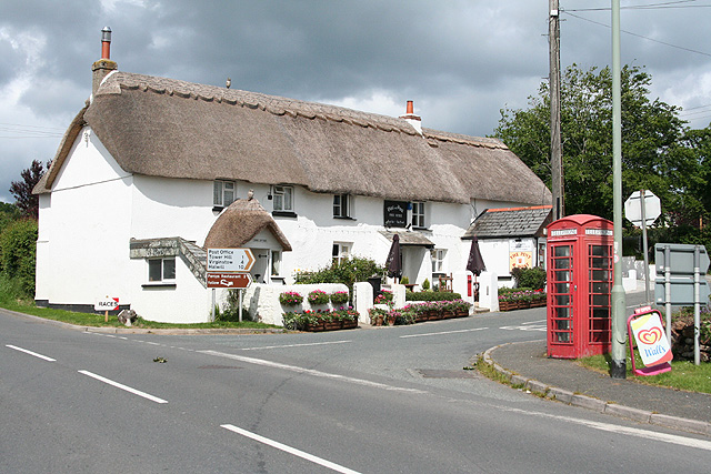 St Giles on the Heath: The Pint & Post A pub and rural post office combined. By the Holsworthy-Launceston road. Looking north east